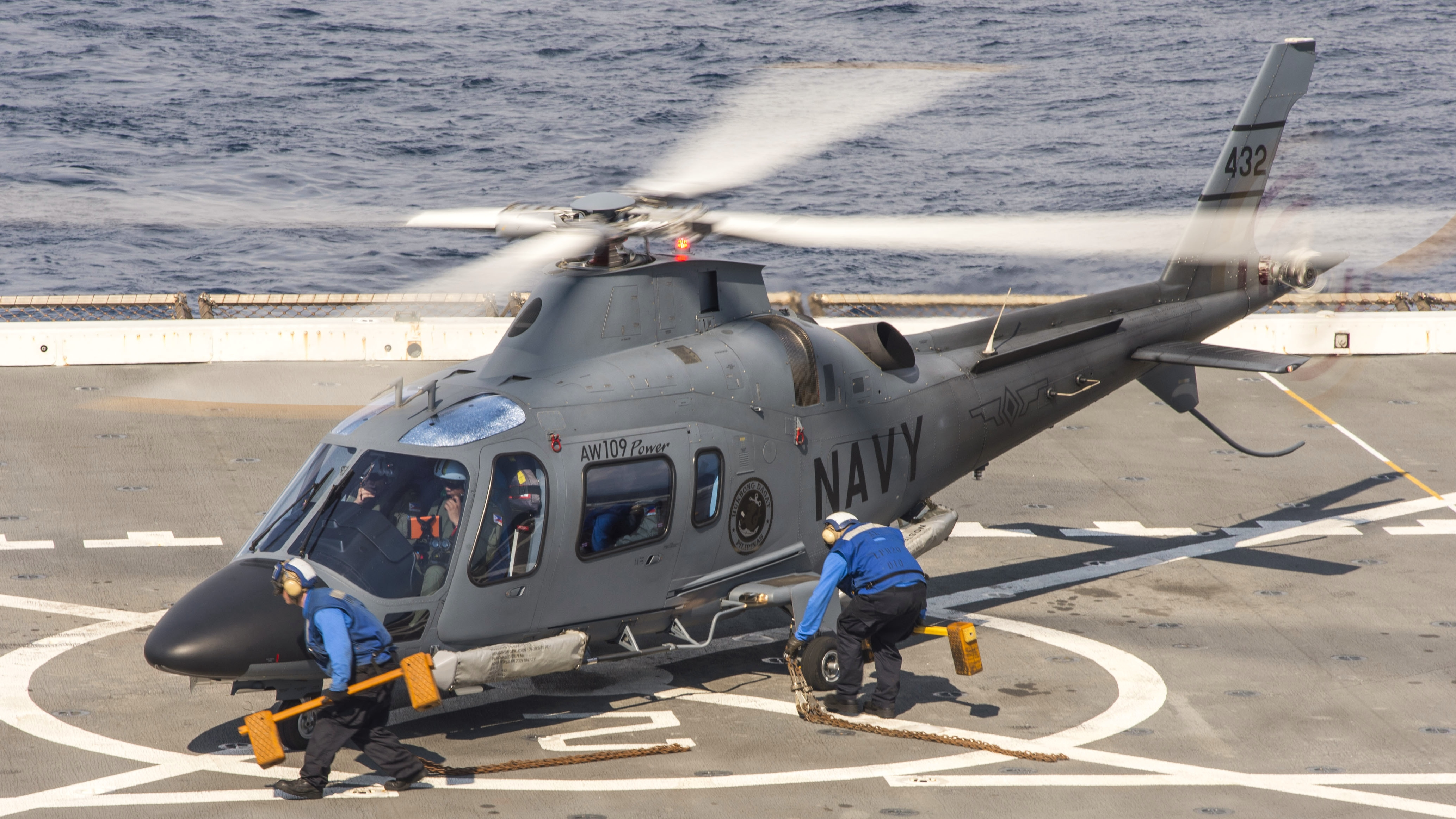 150419-N-KE519-010 PHILIPPINE SEA (April 19, 2015) Sailors chock and chain a Philippine navy AW109 helicopter during flight operations aboard the amphibious transport dock ship USS Green Bay (LPD 20) during exercise Balikatan 2015. Green Bay, part of the Bonhomme Richard Amphibious Ready Group, is participating in exercise Balikatan 2015. (U.S. Navy photo by Mass Communication Specialist 3rd Class Edward Guttierrez III/Released)